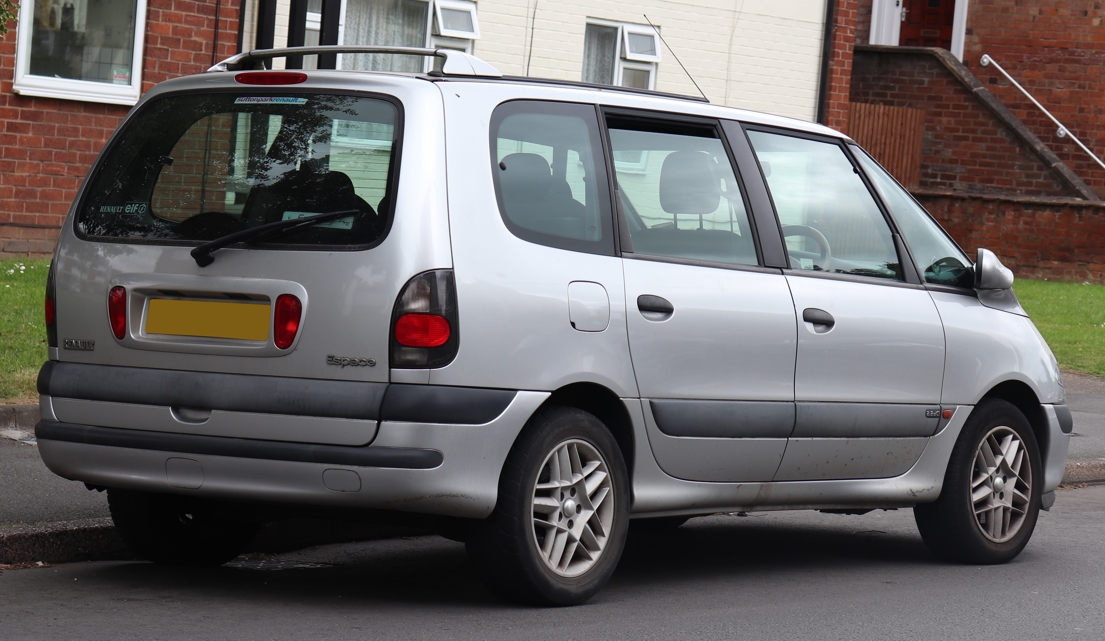 2002 Renault Espace Expression DCi 2.2 Rear Taken in Leamington Spa